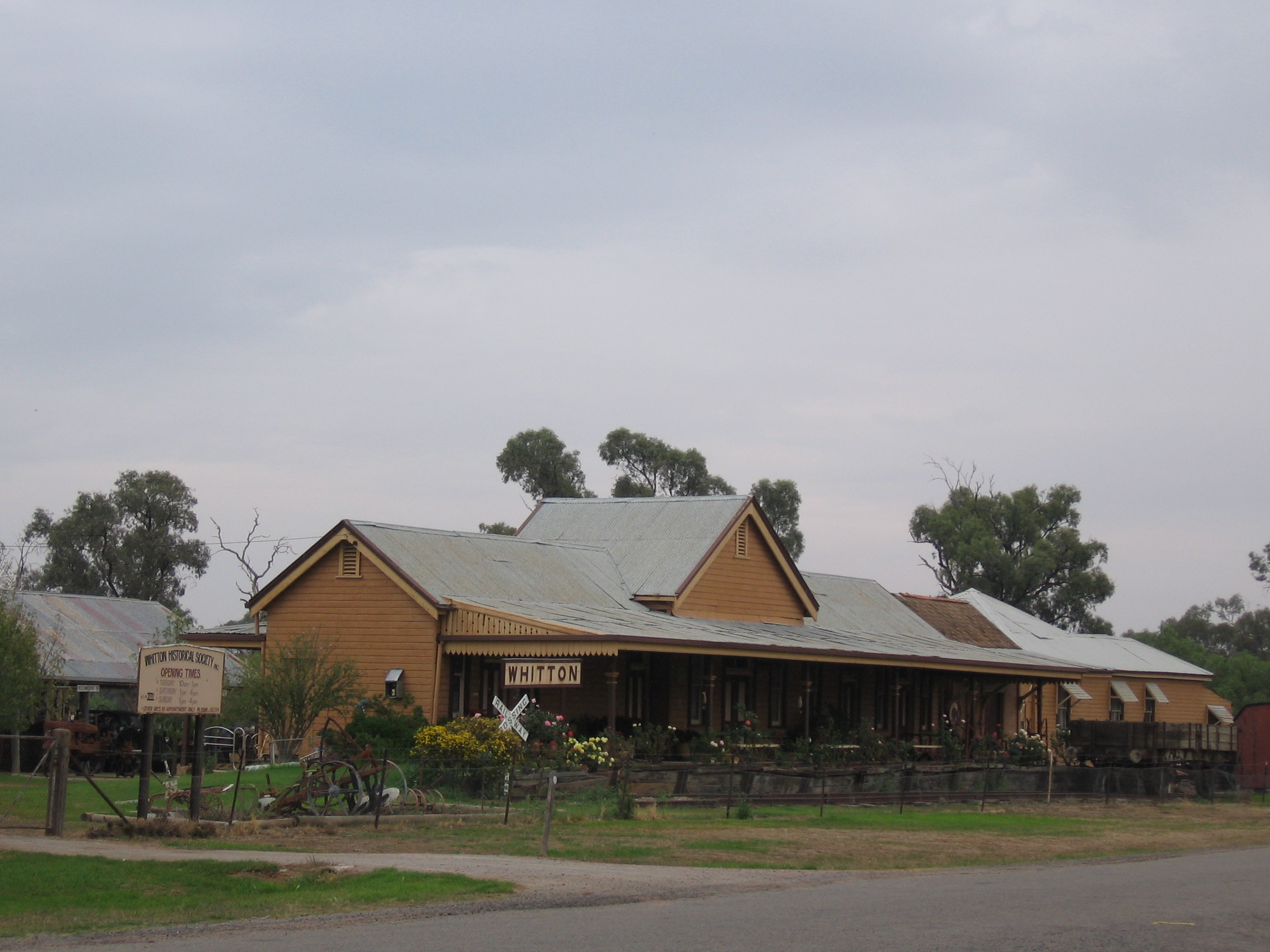 Disused train station at Whitton, New South Wales, now part of the town museum.